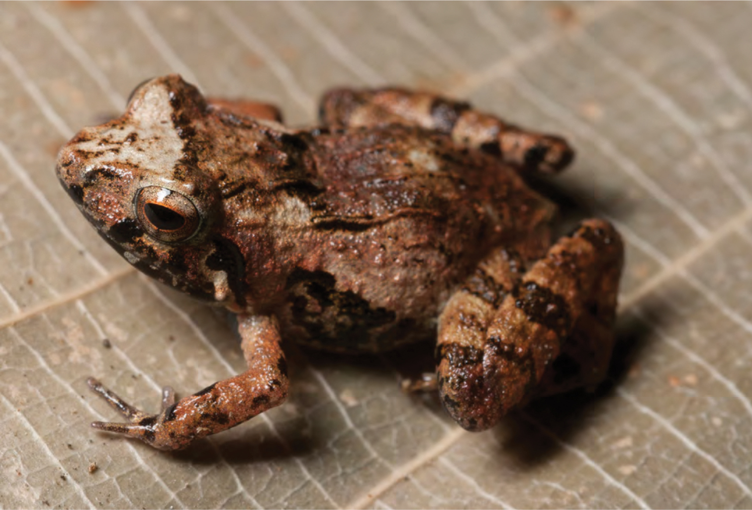 Platymantis pygmaeus at San Mariano. Photo: MVW.